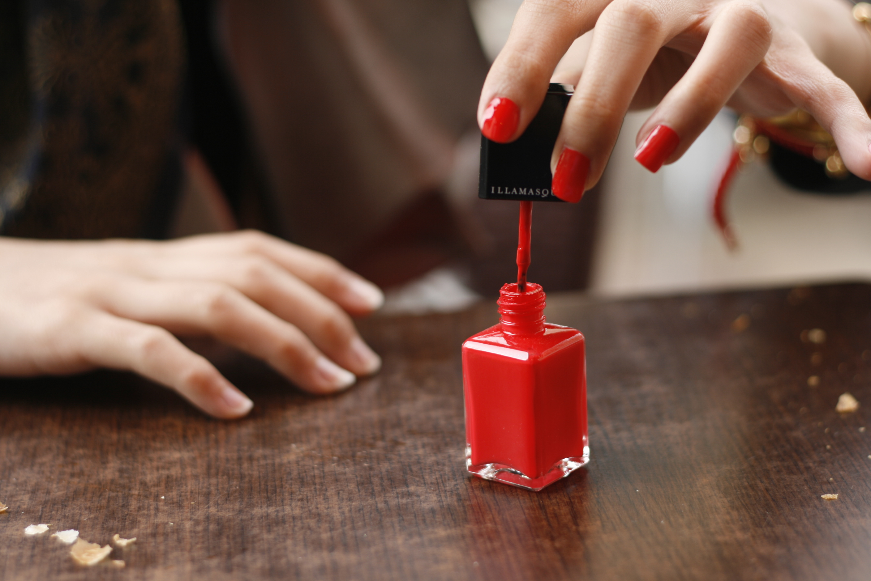 Red nails.